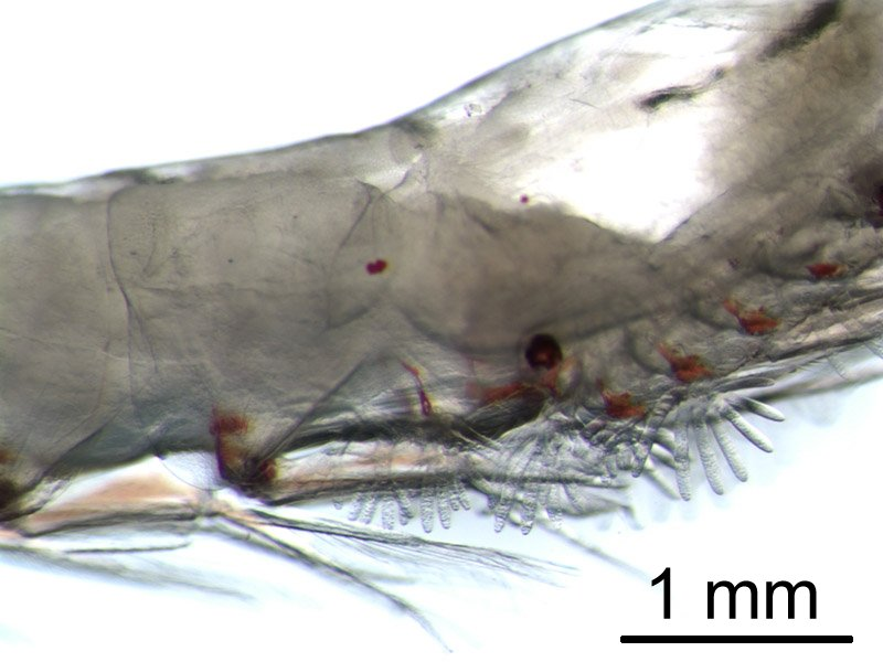 The gills of krill are externally visible, contrary to those of shrimps. The image shows the gills of a krill of the species Euphausia pacifica.